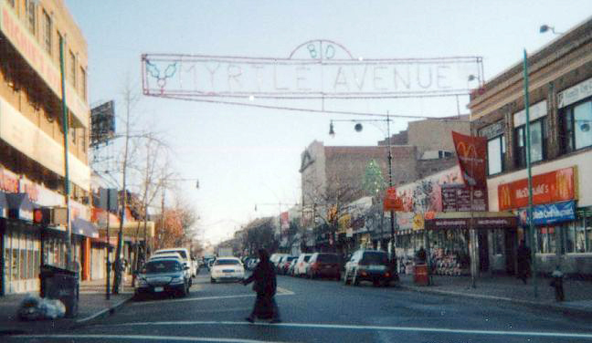 View of Myrtle Avenue B.I.D from the Myrtle/Wycoff Avenue intersection.